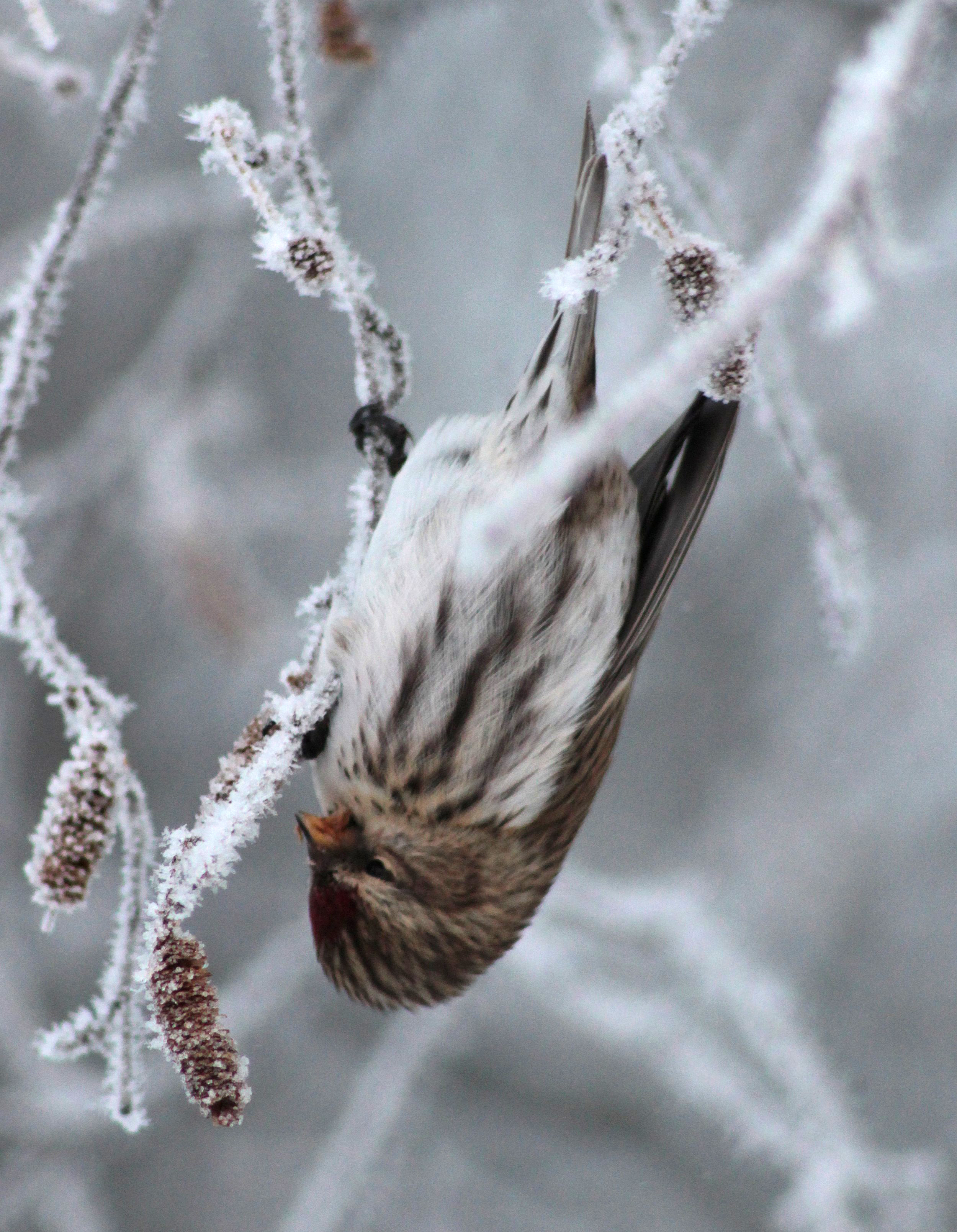 A common redpoll (Carduelis flammea) in Hupisaaret Islands park in Oulu, Finland.